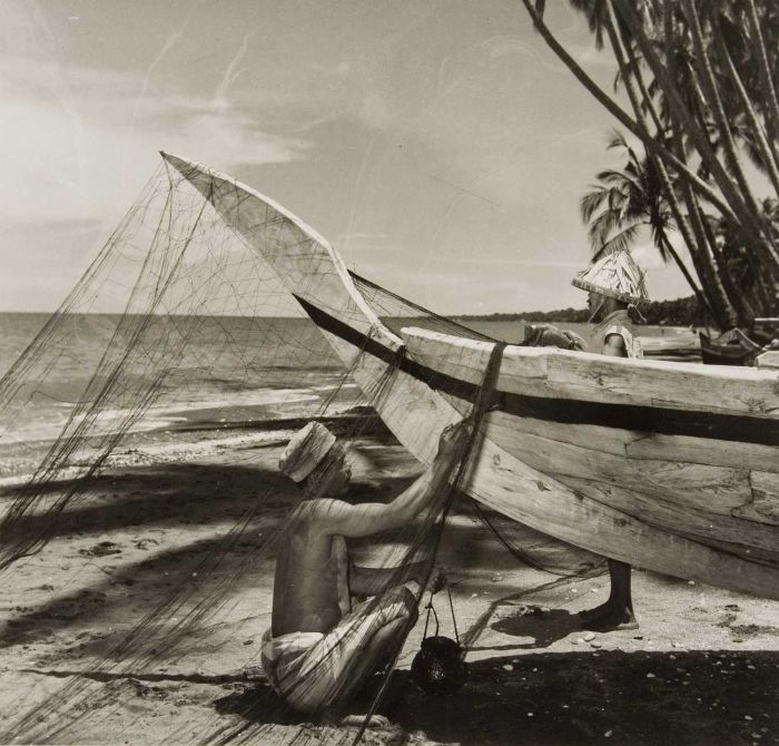 Fishermen at the beach of Galesong, keeping their proa and net in maintenance